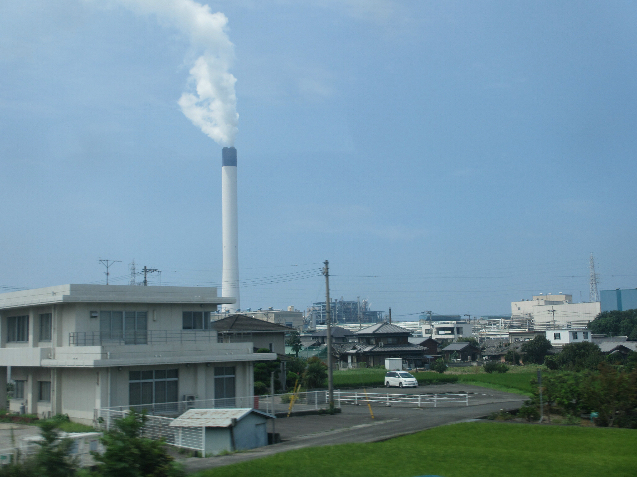 Muramatsucho